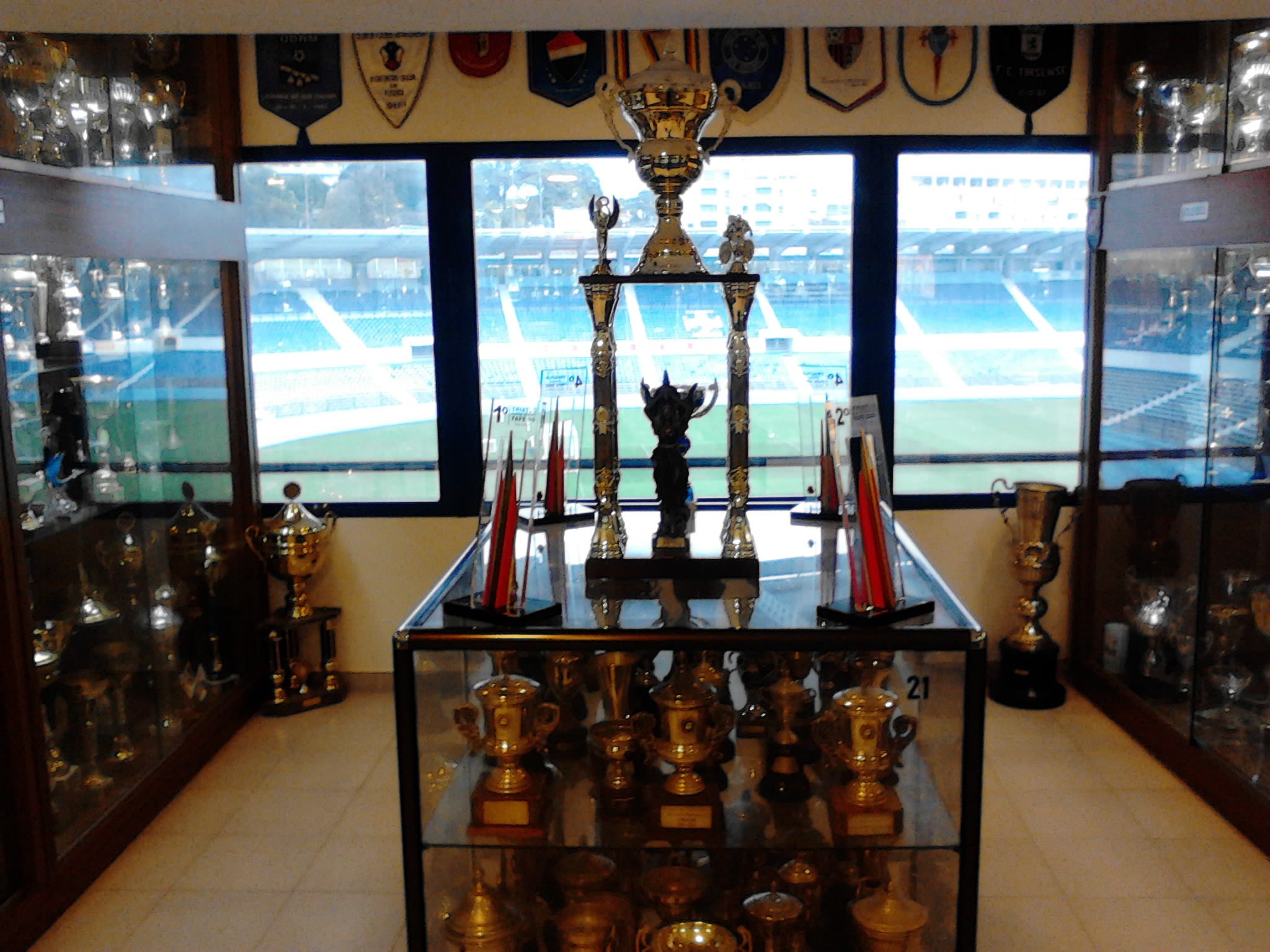 Several trophies related to the sport